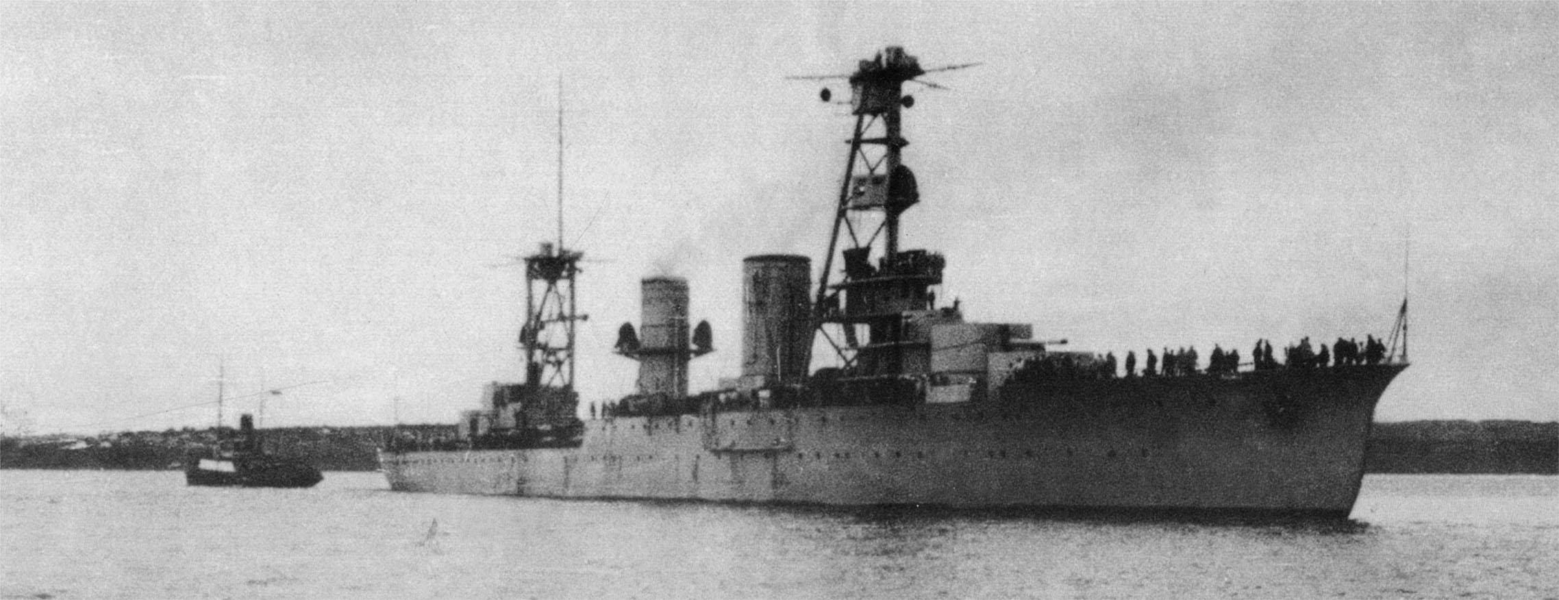 Soviet cruiser Krasnyy Kavkaz.